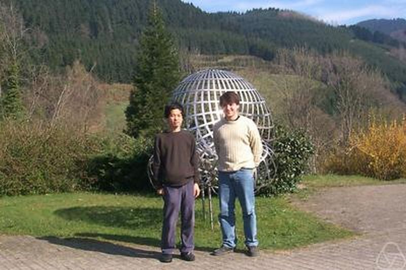 Keni Fukaya, Paul Seidel (right) in Oberwolfach 2002